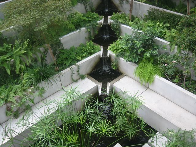 Harvard Business School 1959 Chapel. Photo taken by me.